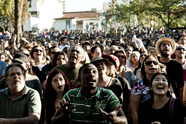 Peoples in Bauru, São Paulo, Brazil.